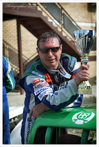 Шумеев